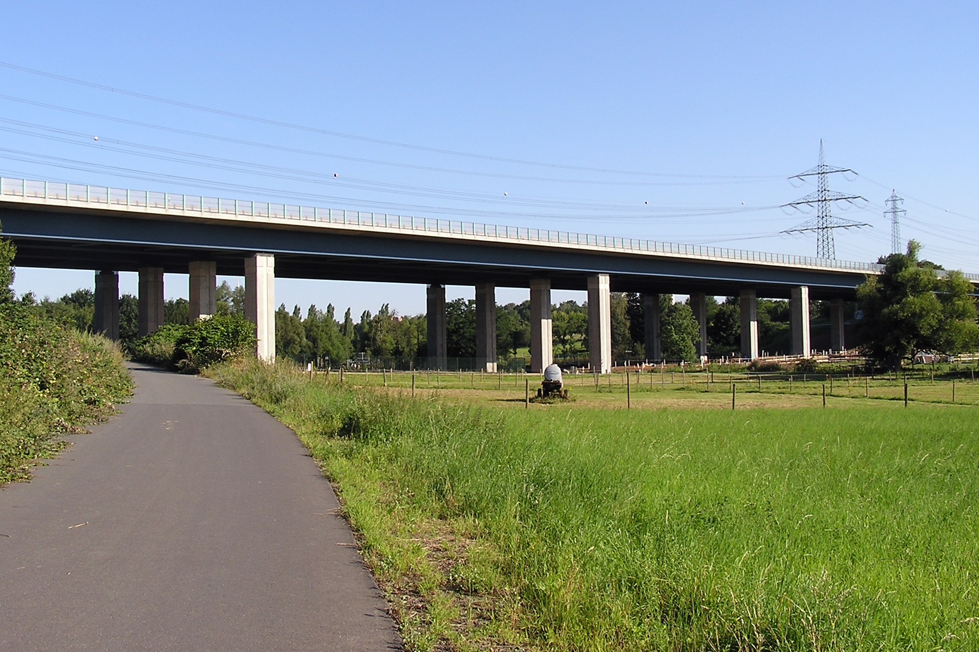 Urselbach-valleybridge (new) of the A 5